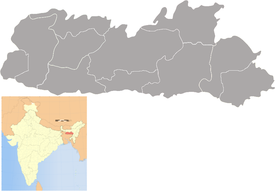 Blank map of districts of Meghalaya